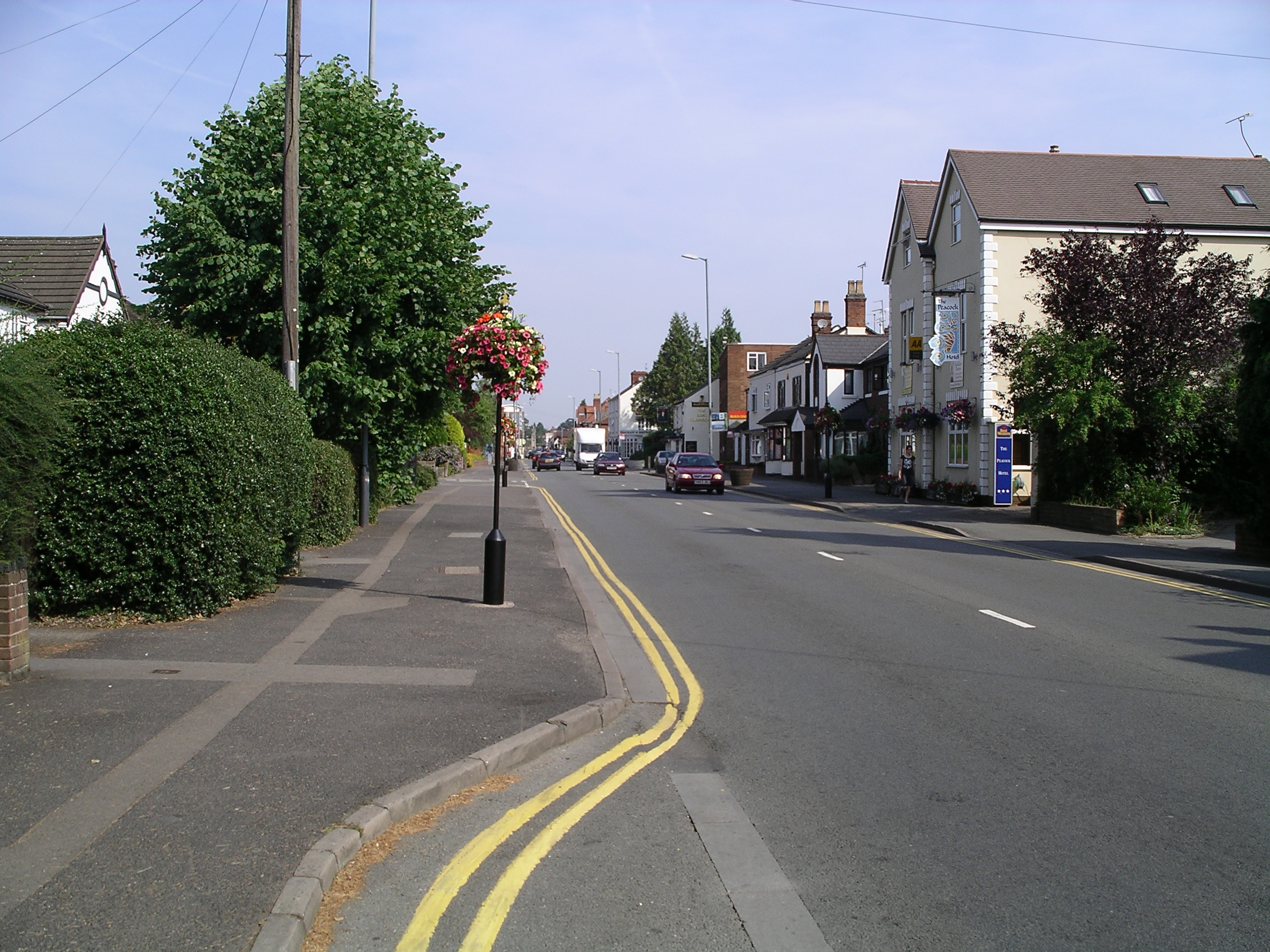 Photo taken in the morning of 1 July 2006 of the main road through Kenilworth, England.